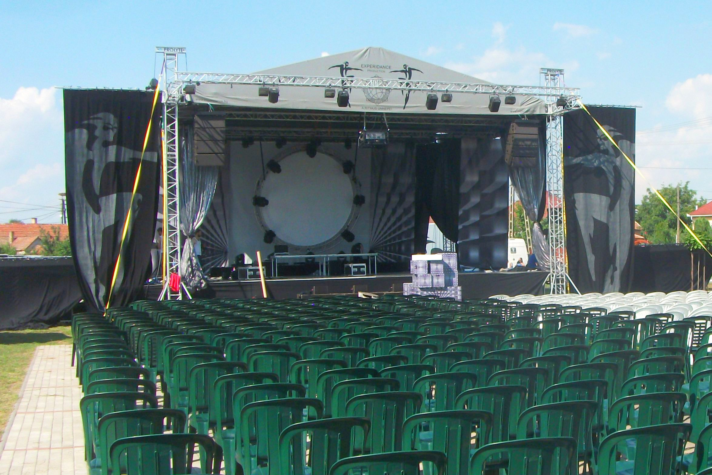 The stage of the ExperiDance Production in Cigánd - 22. July 2016.